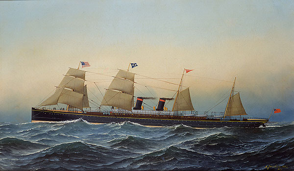 SS Alaska, Guion Line's transatlantic steamer. Broke speed record on atlantic crossing (Blue Riband) in 1882 and 1883. Painting by Antonio Jacobsen.